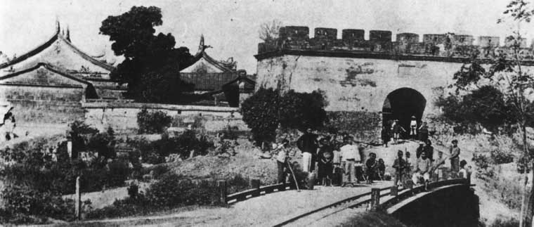 East Gate of Fengshan.